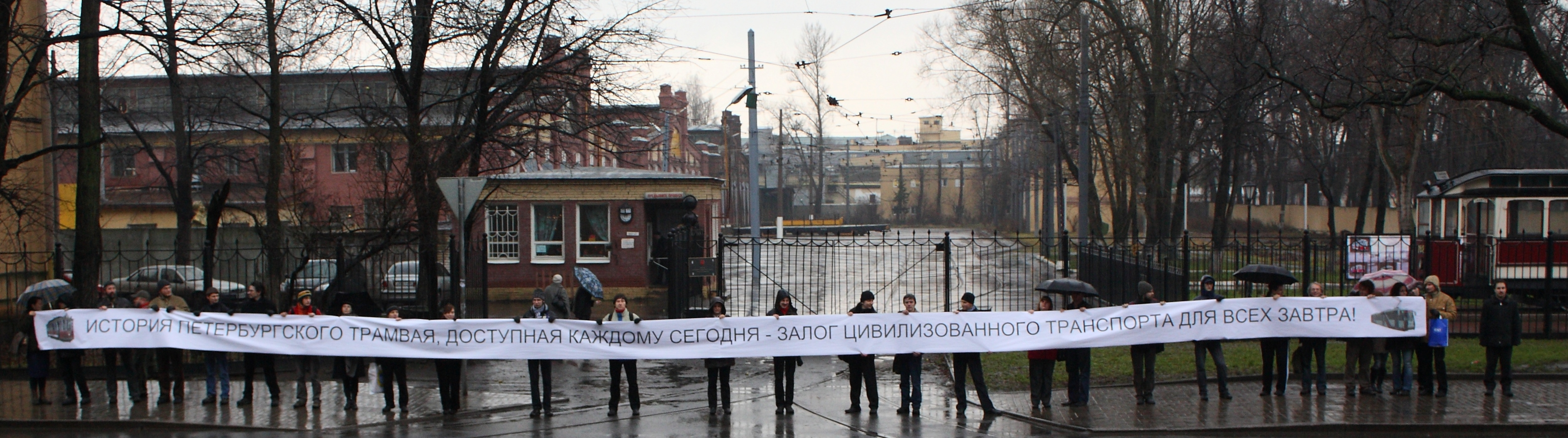 Demarche near museum of electric transport in Saint Petersburg